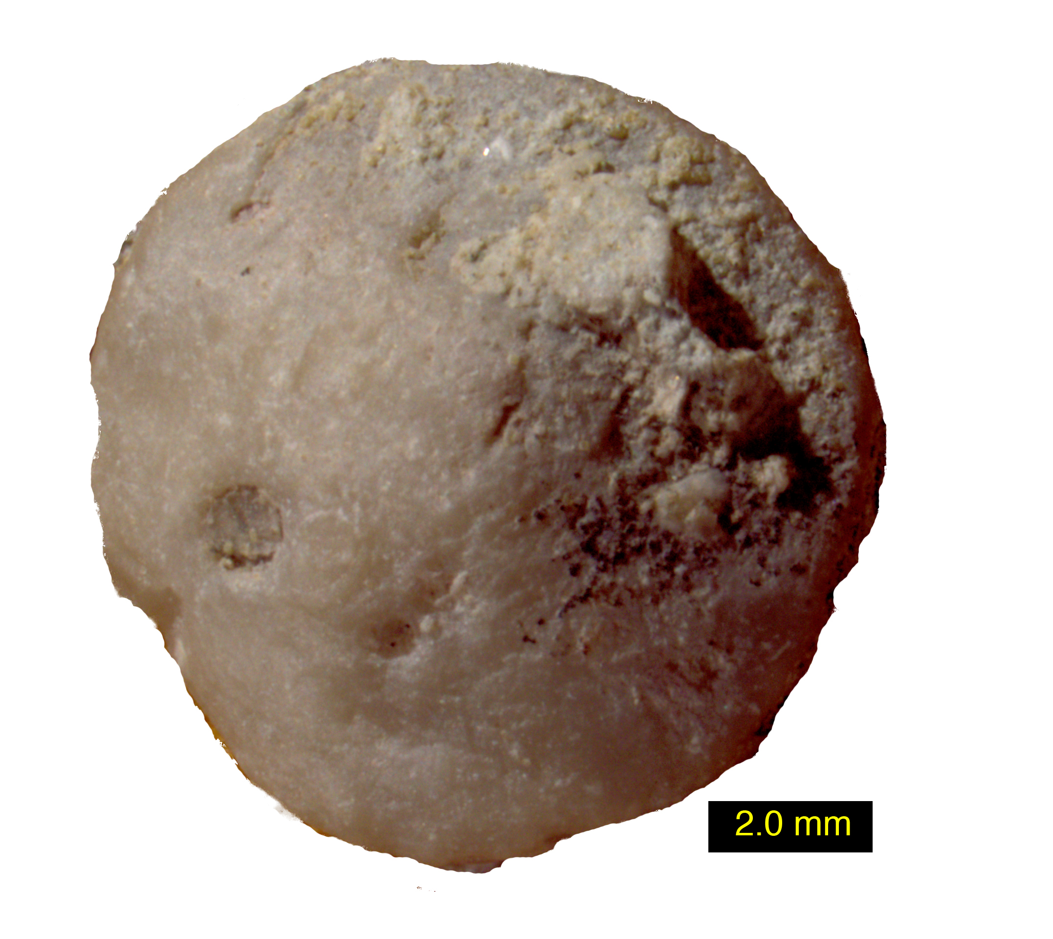 Bolborites from the Volkhovian (Ordovician) near St. Petersburg, Russia.